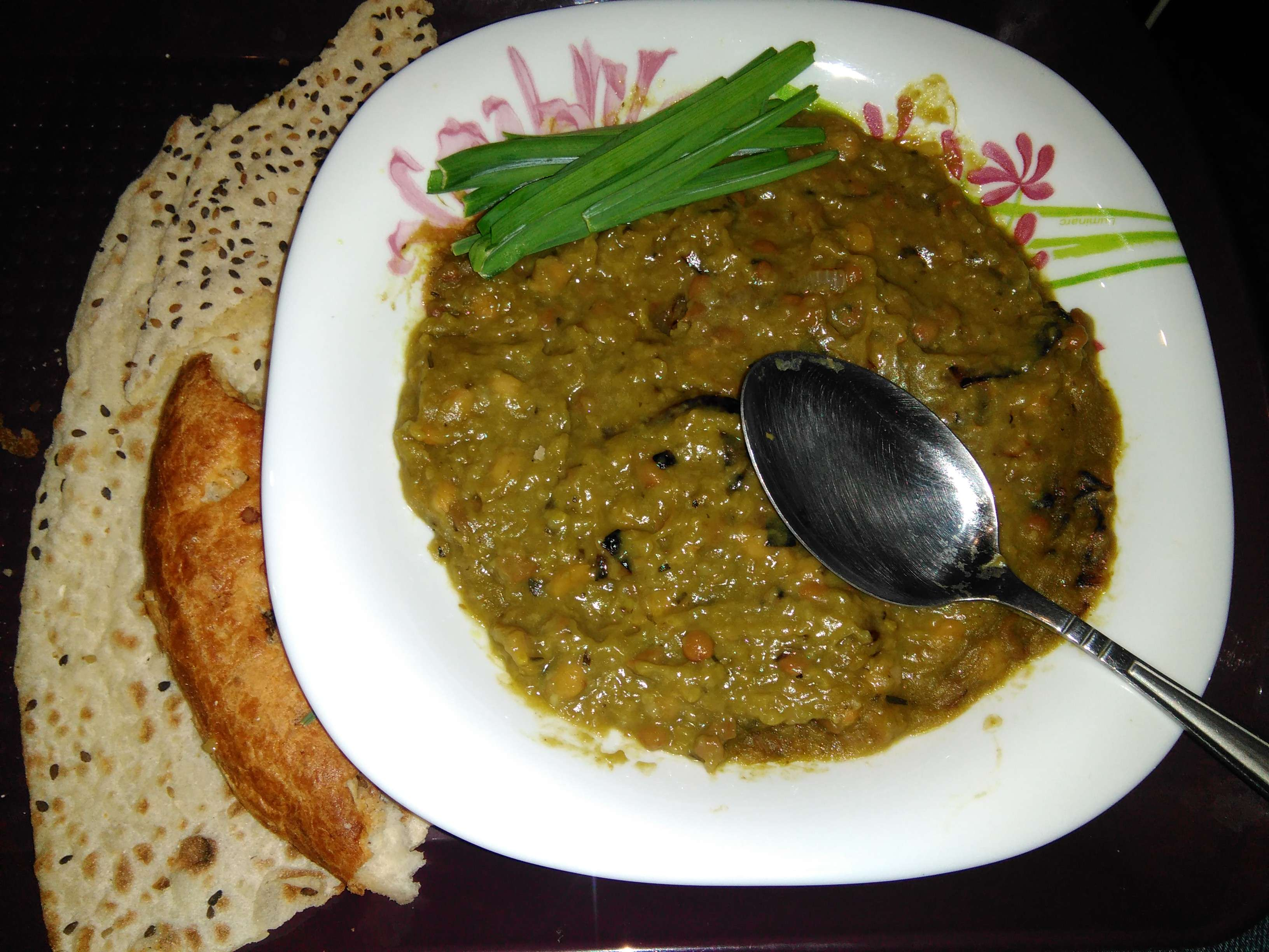 Vegetable Ash(Ash Sabzi)